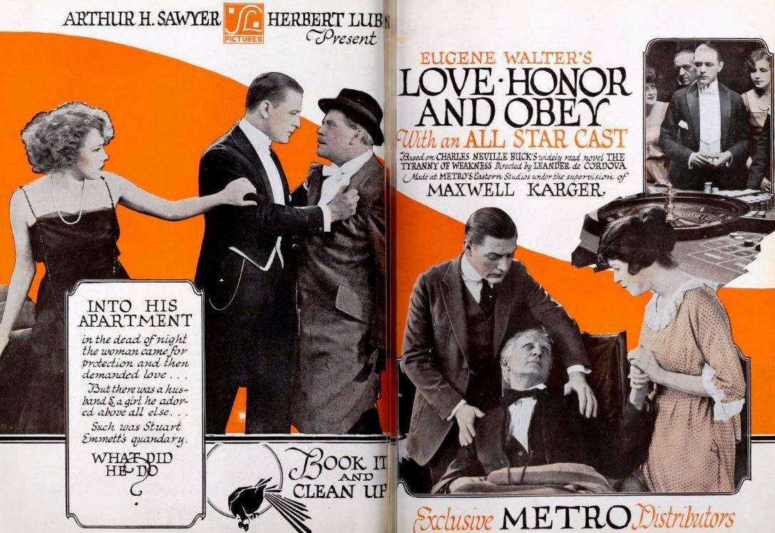 Advertisement for the American drama film Love, Honor and Obey (1920) with Wilda Bennett, Claire Whitney, Henry Harmon, Kenneth Harlan, and E. J. Ratcliffe, from the insert after page 34 of the September 18, 1920 Exhibitors Herald.